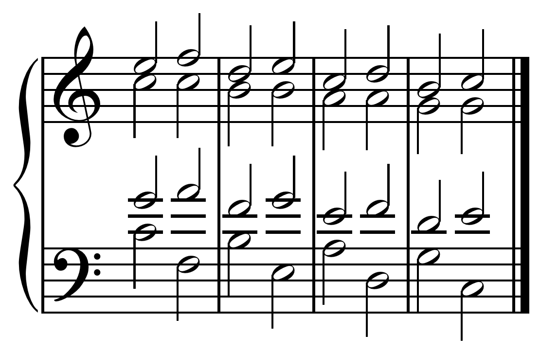 Circle progression in major.